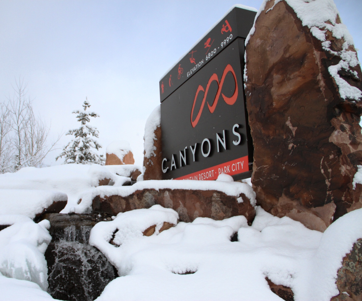 Entrance sign at Canyons Resort.